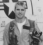 John McCain (front right) with his squadron.